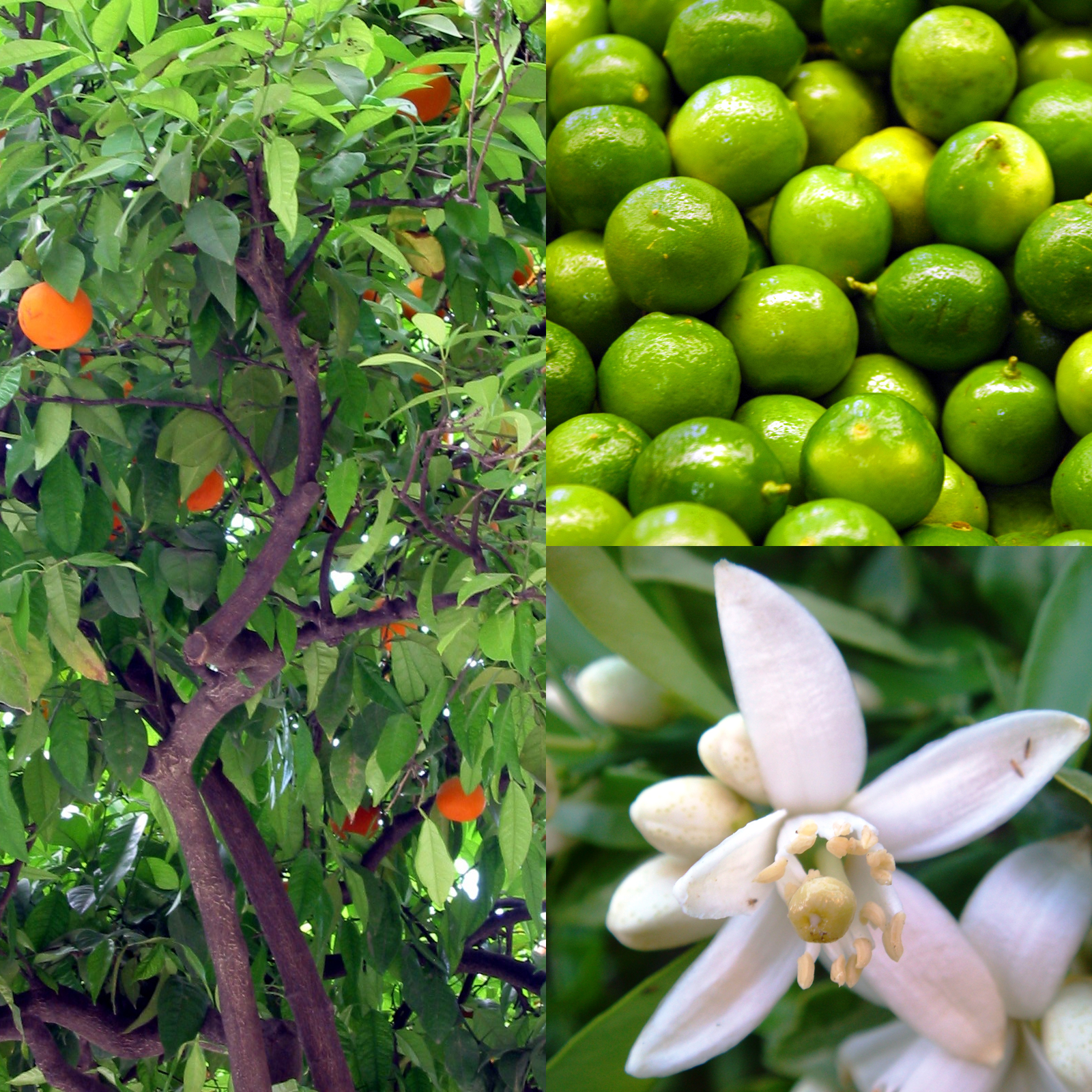 Orange tree, Citrus sinensis (left), Persian limes, Citrus latifolia (top right) and a flower from the grapefruit tree, Citrus paradisi (bottom right)